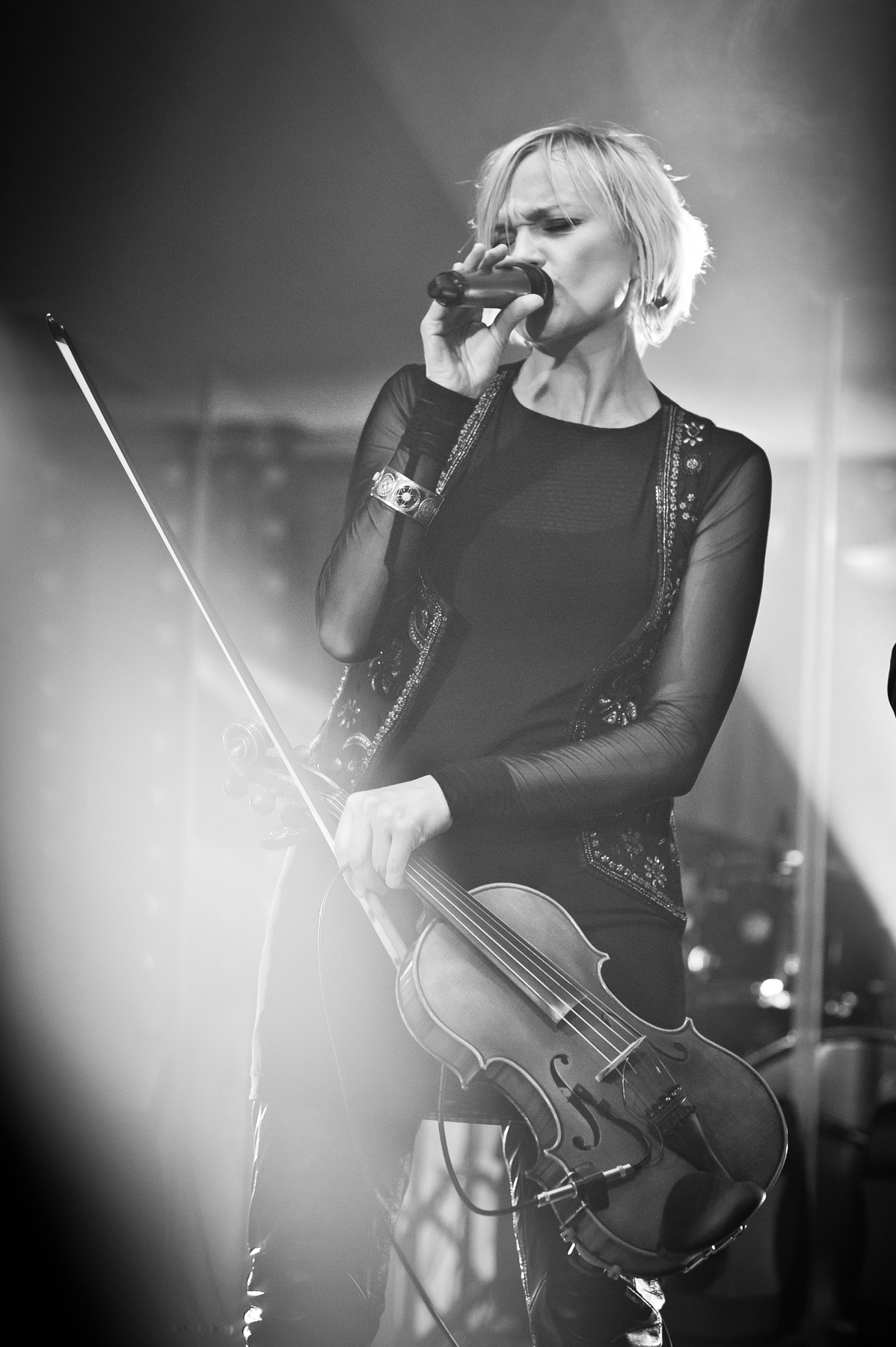 Edyta Golec on stage